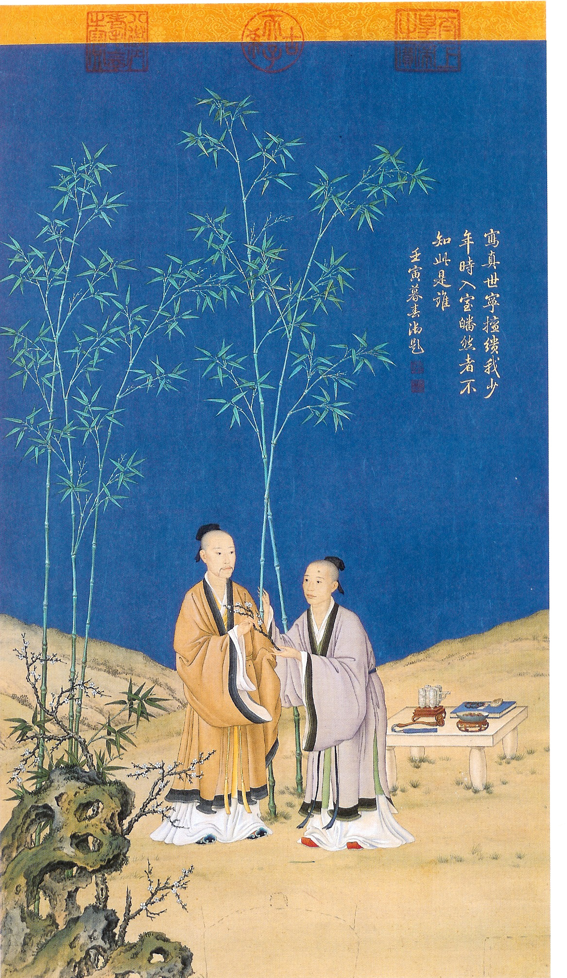 A hanging scroll by Lang Shining (Giuseppe Castiglione), Spring's Peaceful Messages, c. 1736. Ink and color on silk, 68.8 x 40.6 cm. Photo © National Palace Museum, Beijing. The Yongzhen and Qianlong Emperor's